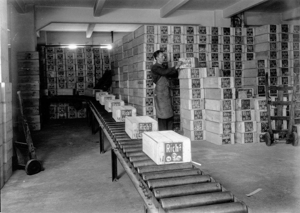 Packets of Rich's coffe substitute at Dansk Cichorie Fabrik at Gerdasvej 3-55 in Frederiksberg, Copenhagen, Denmark.